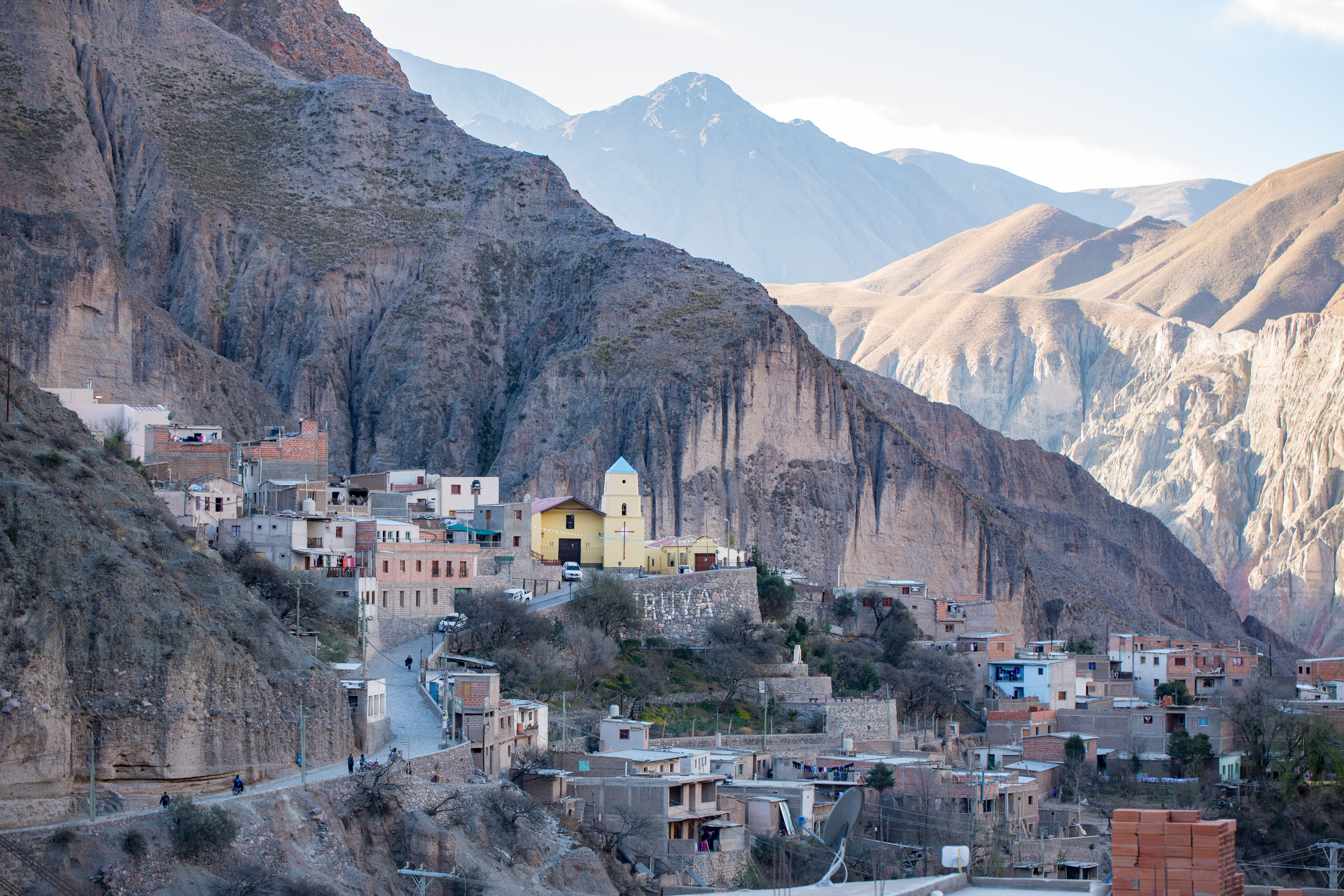 The classical view of Iruya, Argentina